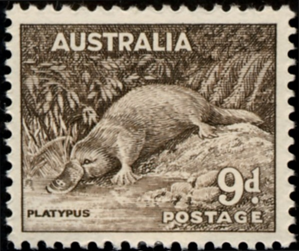 A postage stamp of Australia issued 1937